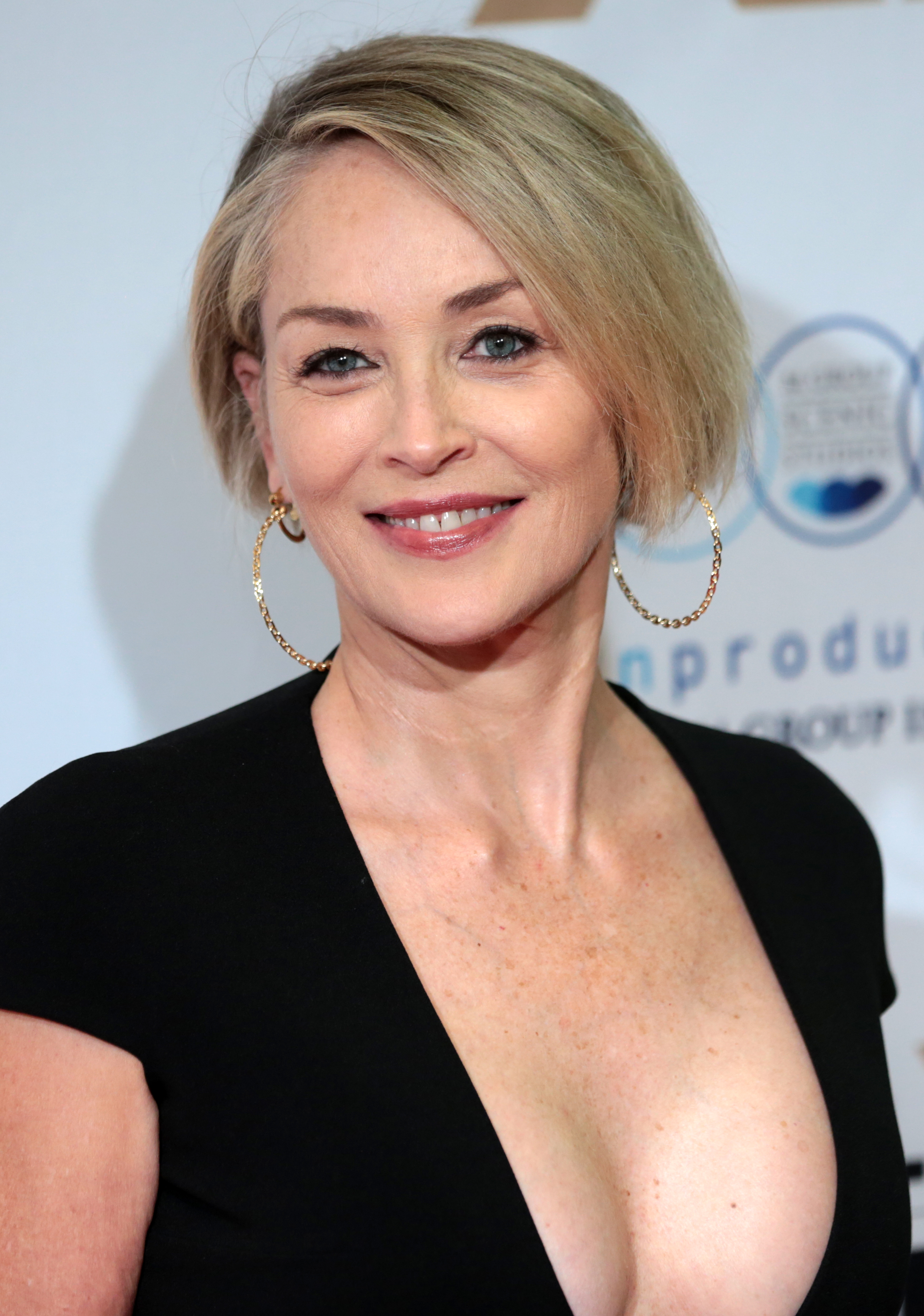 Sharon Stone at Celebrity Fight Night XXIII in Phoenix, Arizona.